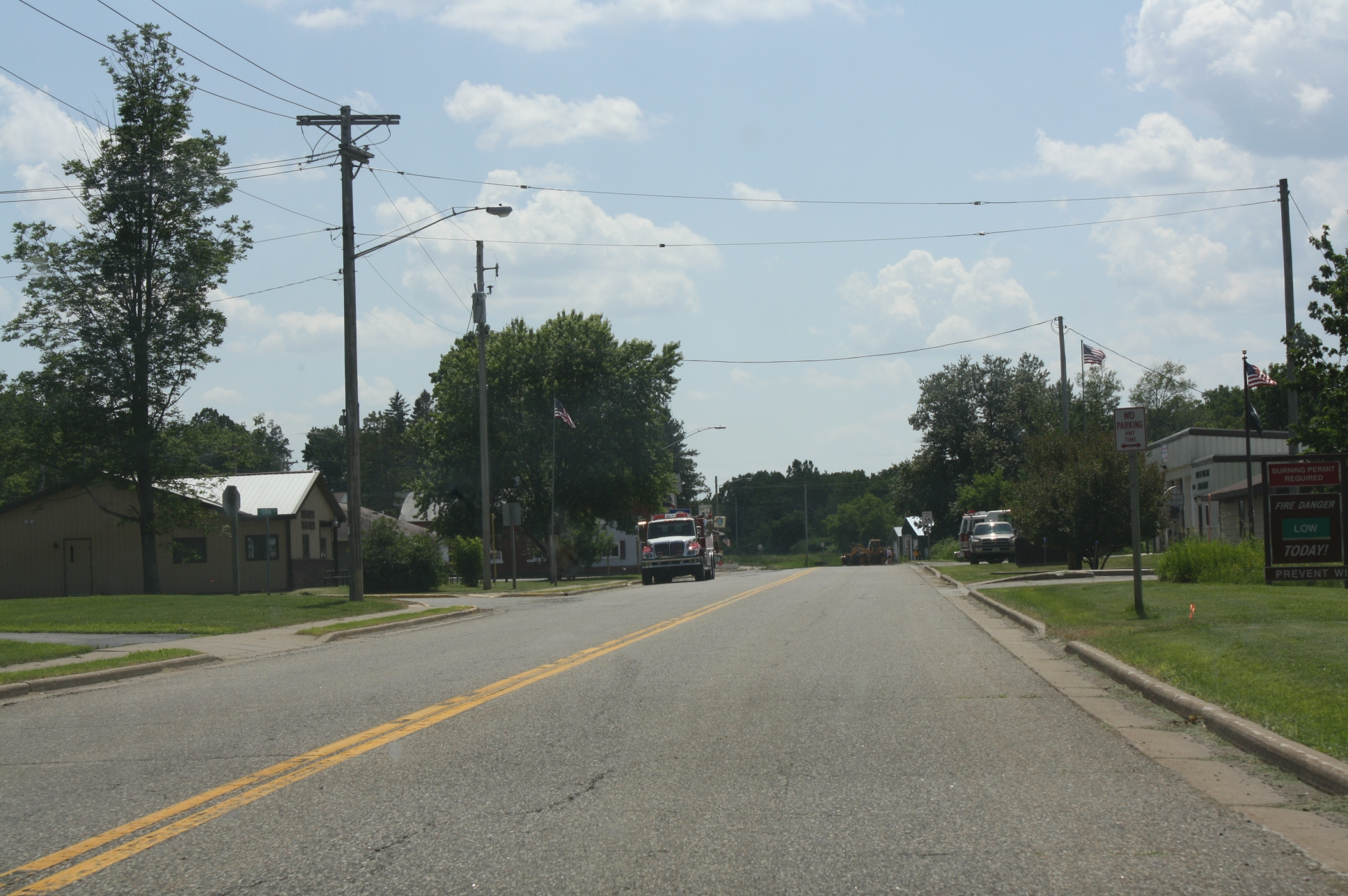 Looking south in downtown Long Lake (CDP), Wisconsin on Wisconsin Highway 139.